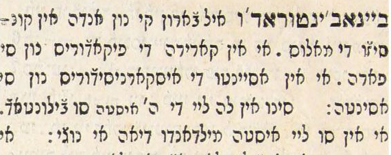 A demonstration of "rafe mark" use in Ladino language. Psalm 1:1-2.